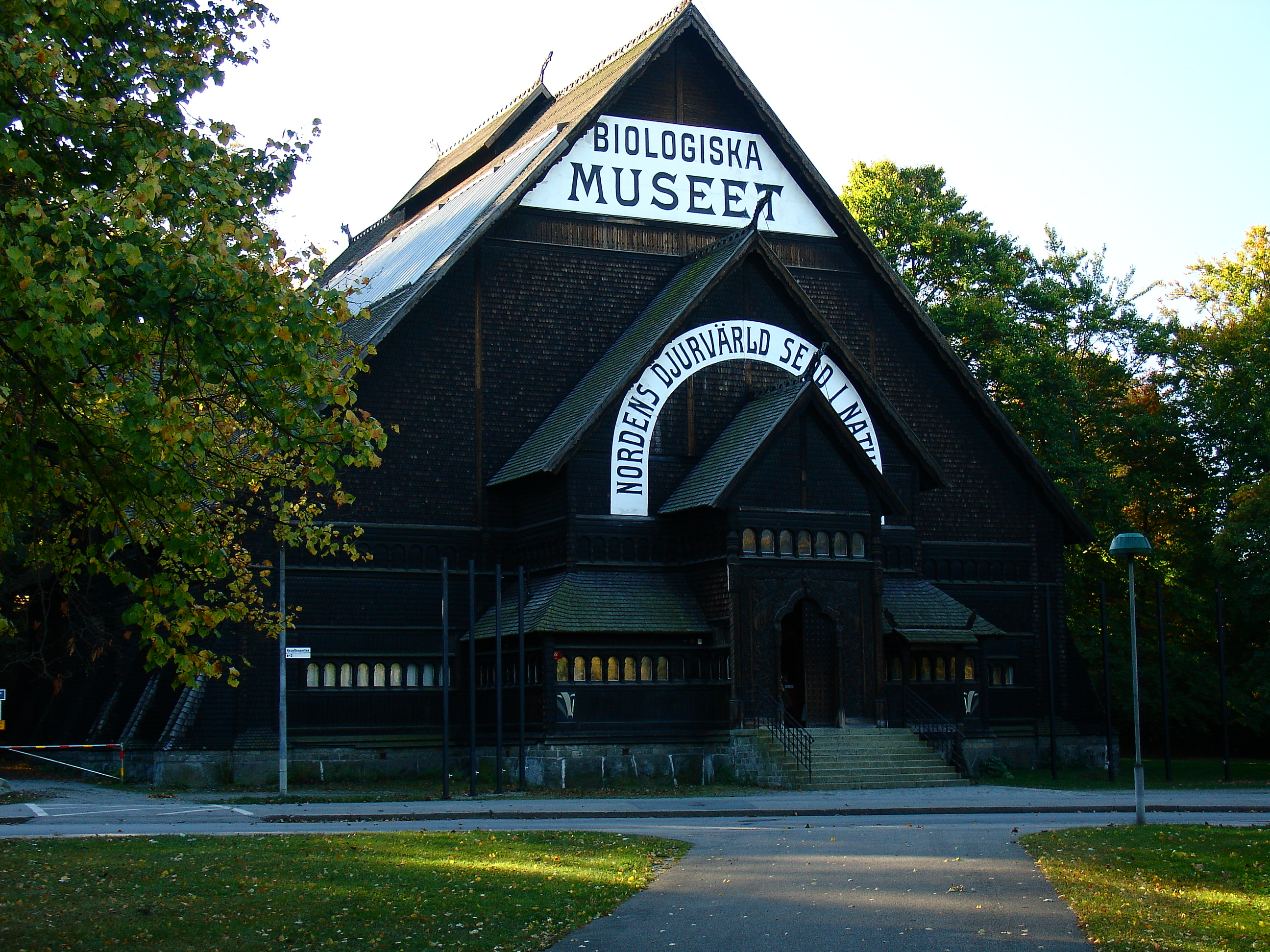 Museum of Biology in Stockholm, Sweden